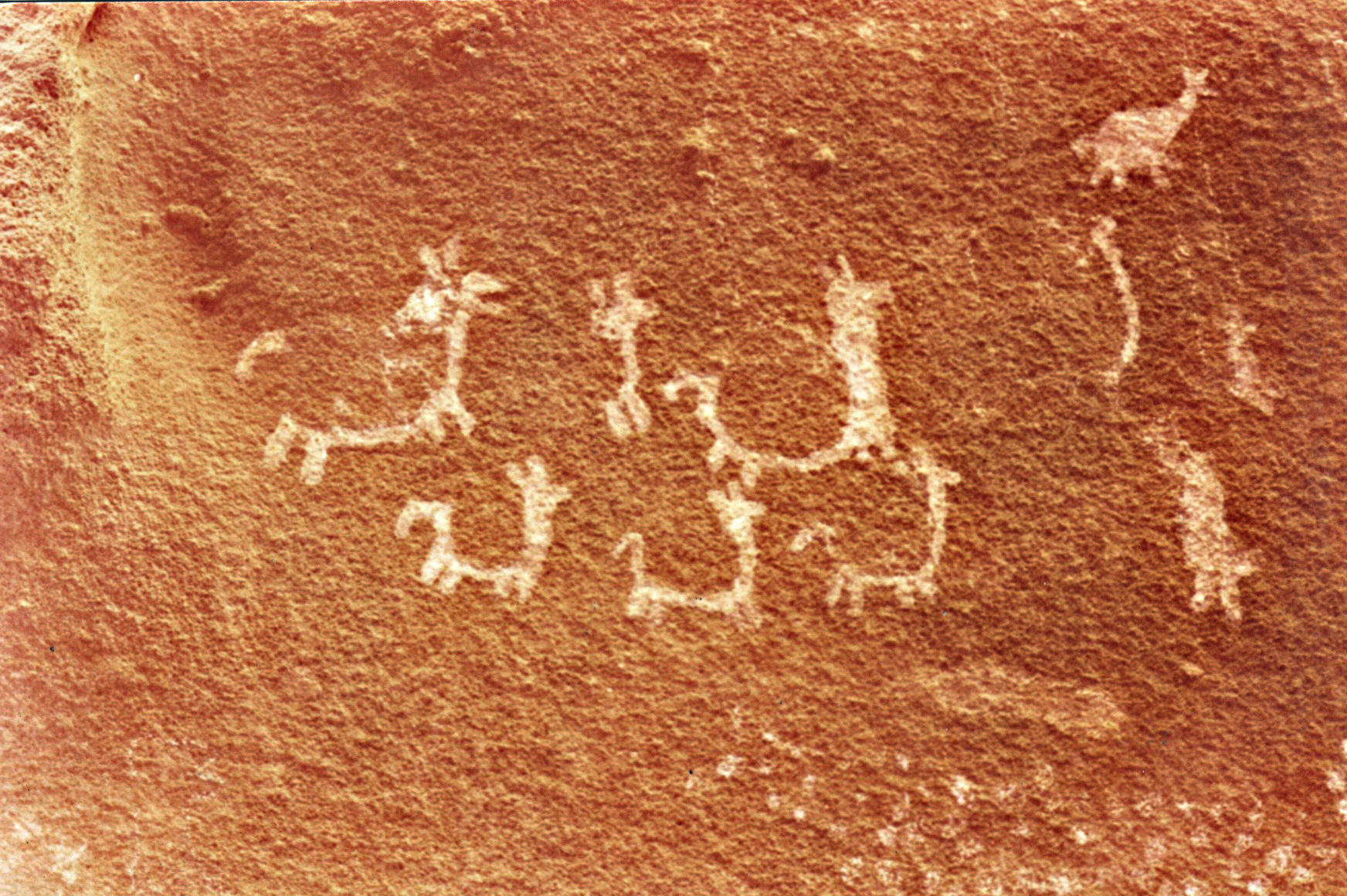 Cave art of Cerro Colorado, Córdoba, Argentina